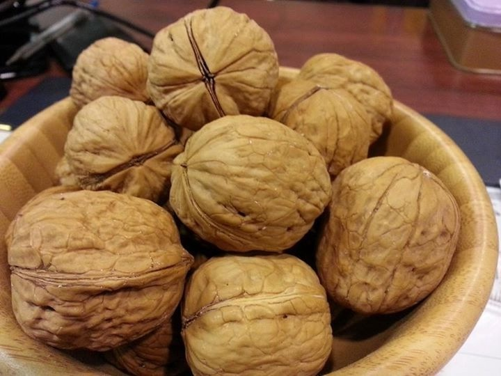 堅果合桃, Nuts